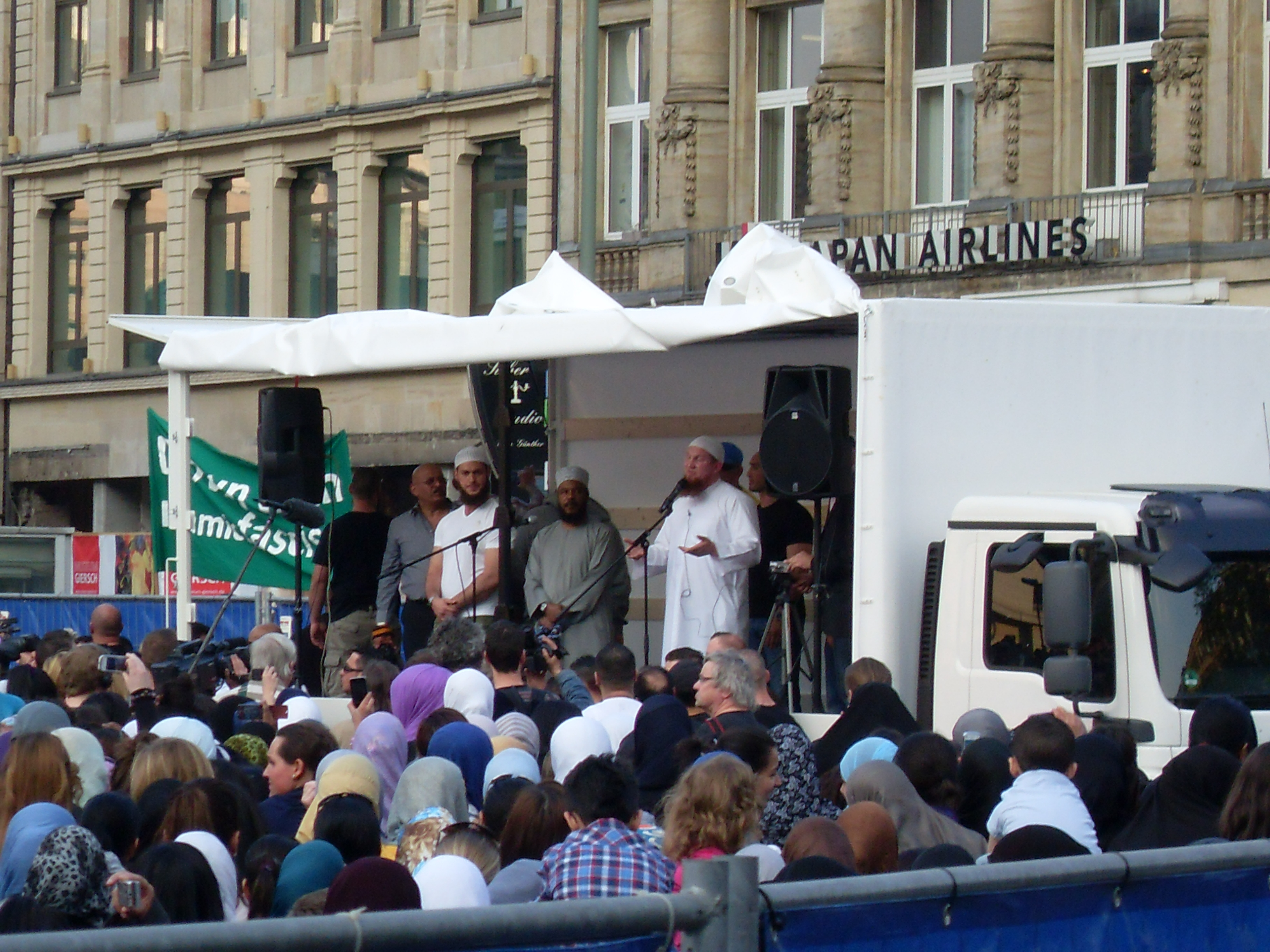 Bilal Philips (center, grey clothing) and Pierre Vogel (right, white clothing) speaking on a rally in Frankfurt/Main